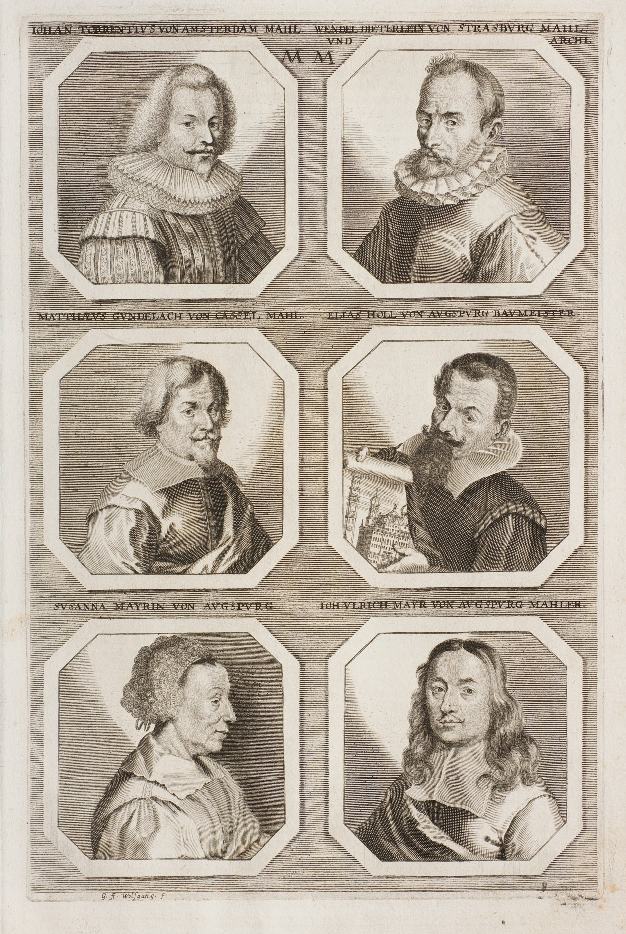 Engraving from the German Academy of the Noble Arts of Architecture, Sculpture and Painting, or Teutsche Academie, a comprehensive dictionary of art by Joachim von Sandrart, published in 1675 and later illustrated with engravings in 1683 Torrentius, Wendel Dietterlin, Mattheus Gundelach, Elias Holl, Susanna & Jan Ulrich Mayr